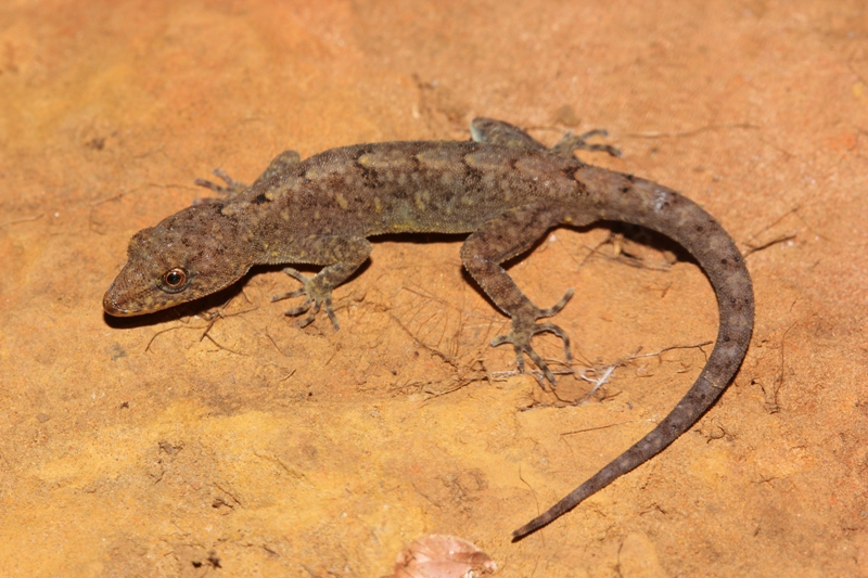 This is a nocturnal species found active on the tree trunk, on the rock bed of a dried stream surrounded by forest in Marutiwadi village, near Phondaghat, Sindhudurg district, Maharashtra, India.